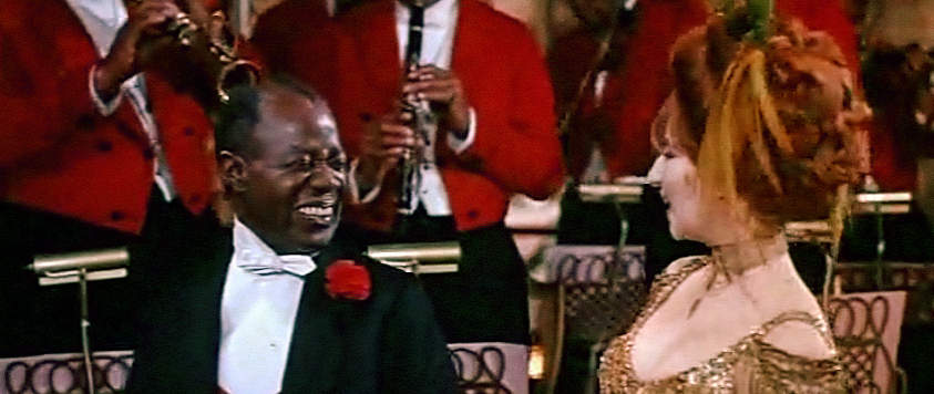 Screenshot of Louis Armstrong and Barbra Streisand from the trailer for the film Hello, Dolly! (film)